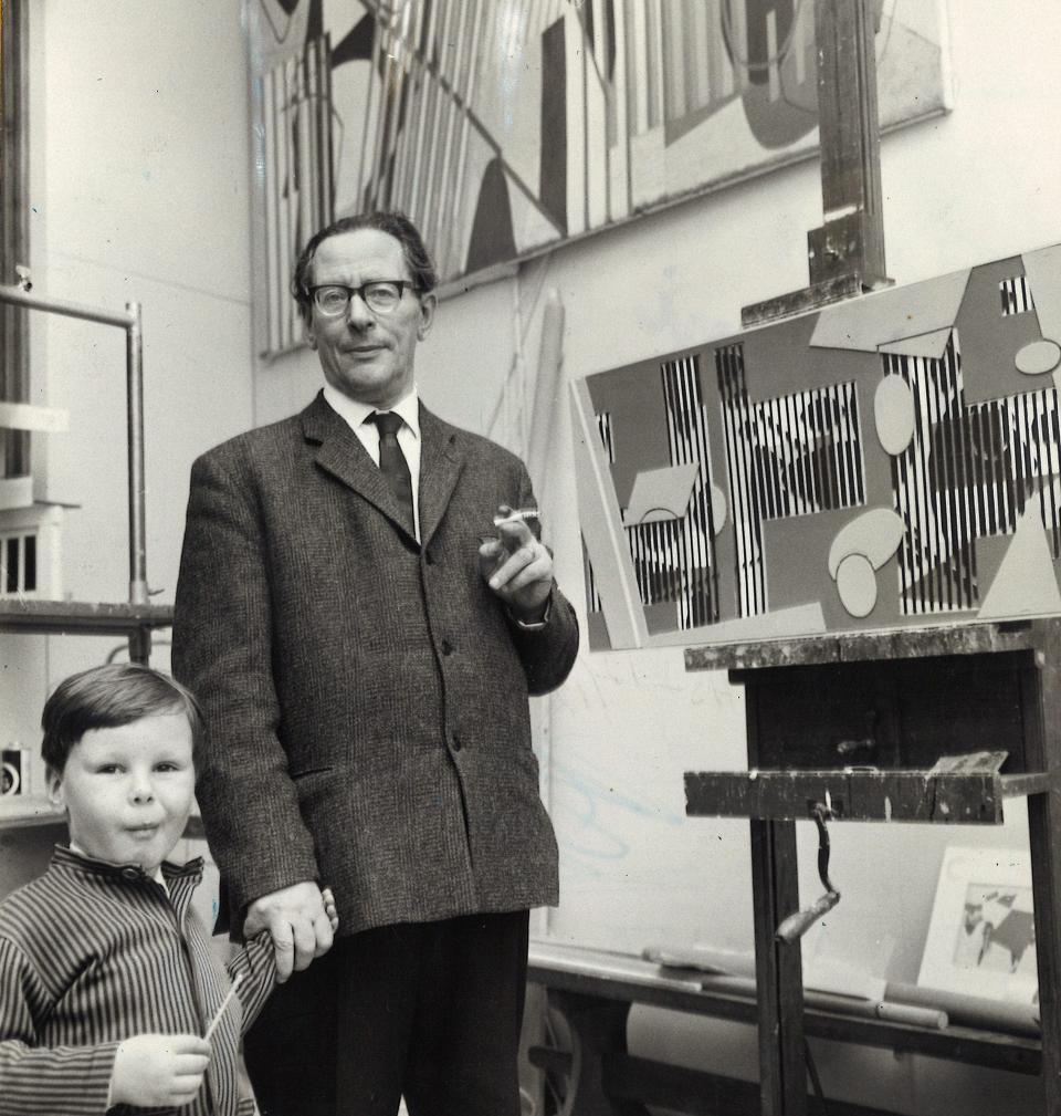 Photograph of the Finnish painter Sam Vanni (1908–1992) with his son Mikko (1960–).